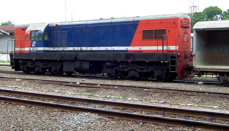 Diesel locomotive BB 200 05 from Indonesia